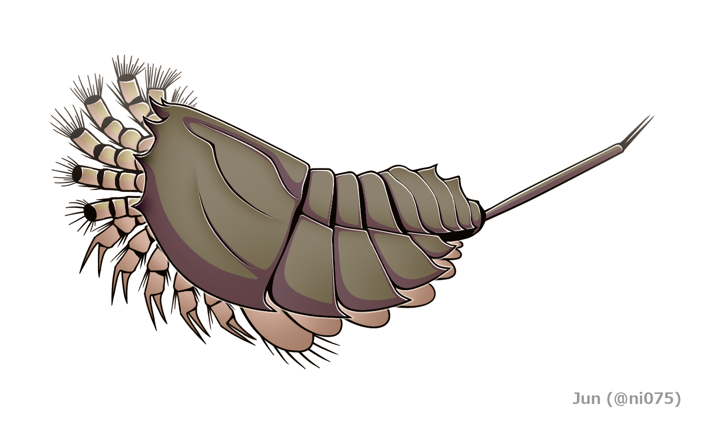 Reconstruction of Offacolus kingi, a silurian Euchelicerate (Chelicerate).